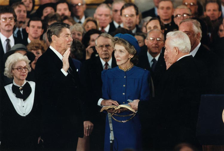 President Reagan being sworn in for second term in the rotunda at the U.S. Capitol.